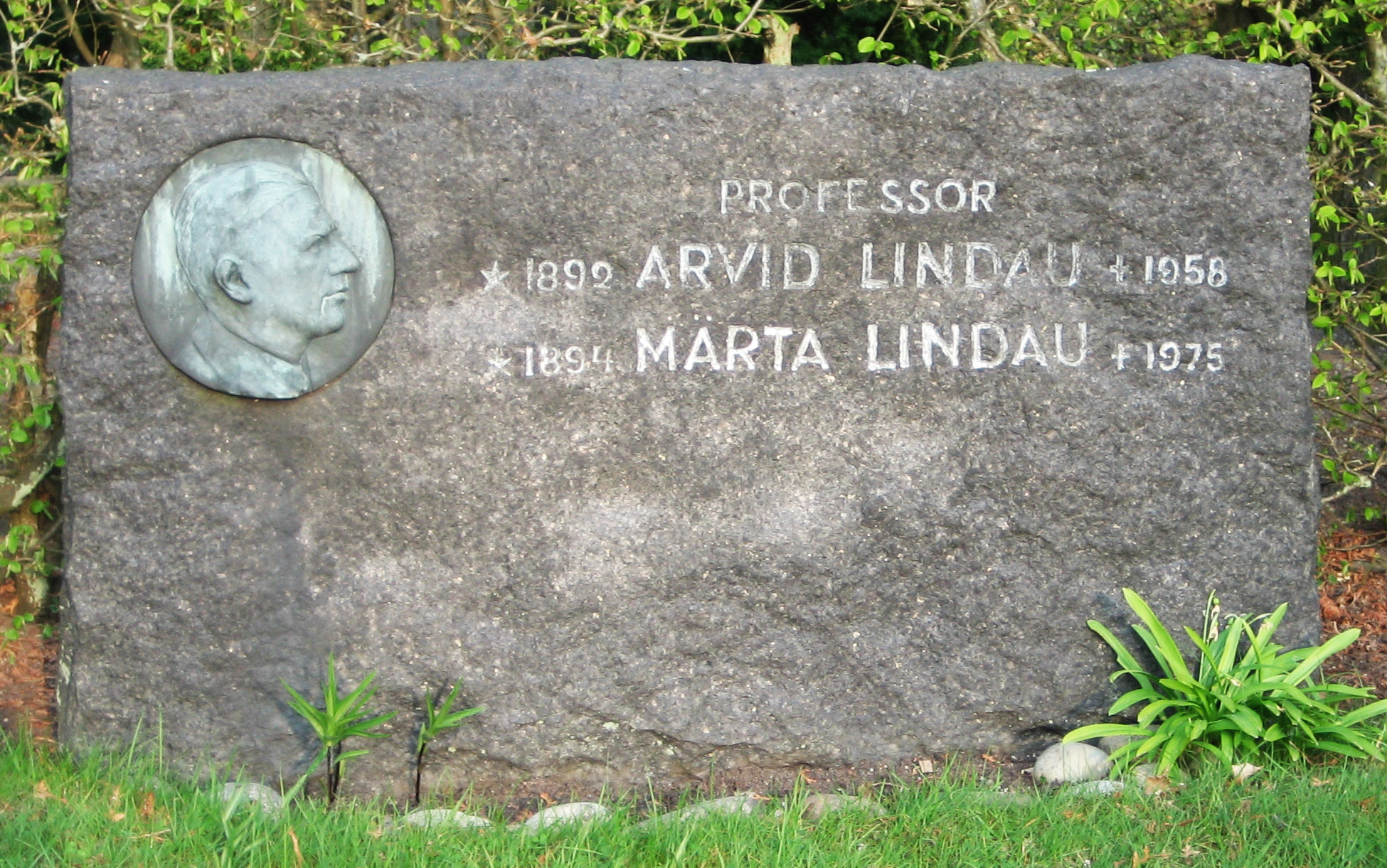 Grave of swedish professor Arvid Lindau (1892-1958). Photo taken by the uploader at Norra kyrkogården, Lund, Sweden.